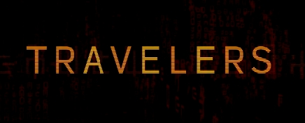 Netflix Travelers series Logo